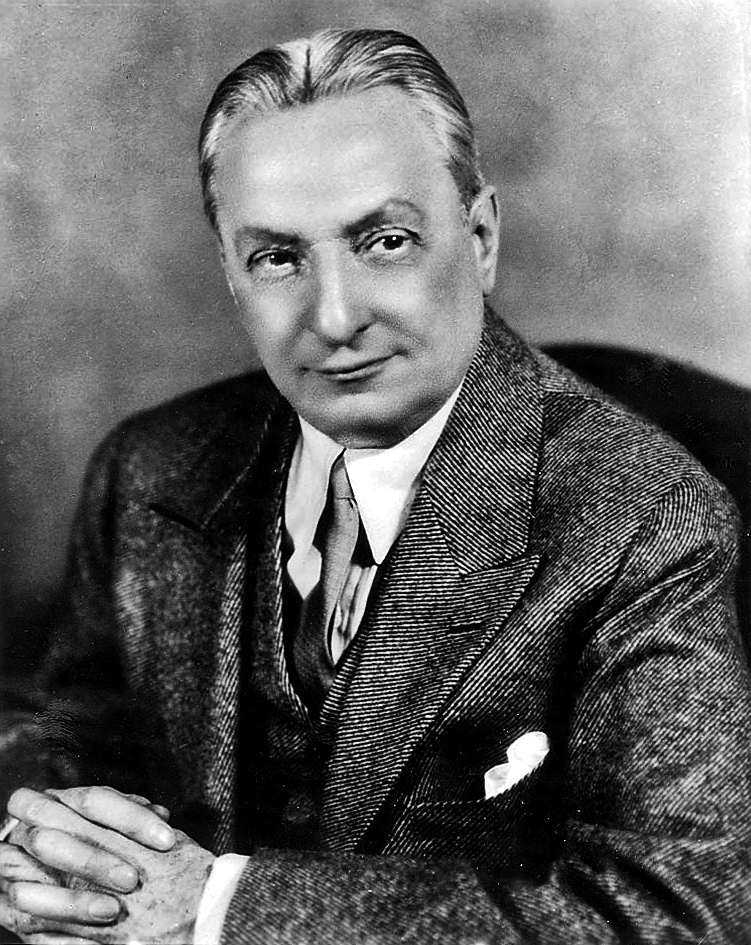 Publicity portrait photo of Florenz Ziegfeld. Neither front or back indicates any copyright notice. Original upload shows back of photo separately, indicating that the photo was an older one used by a newspaper for publicity about an upcoming film. See also film still article describing general non-copyrighted nature of publicity stills.